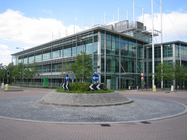 Sunbury: BP Sunbury Business Park. This is Building A, the first new building on the old BP Sunbury site. The roundabout is on Chertsey Road which runs through the site.